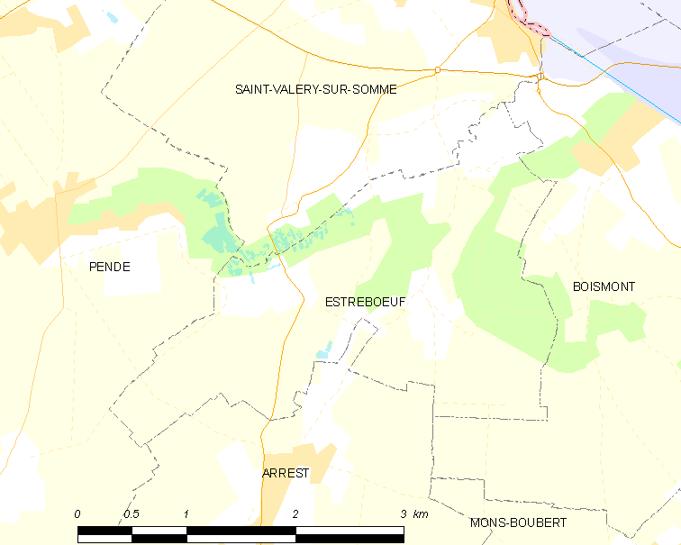 Map of French municipality Estrébœuf